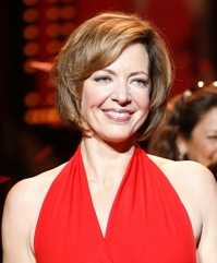 Allison Janney at The Heart Truth Fashion Show 2008 (cropped)